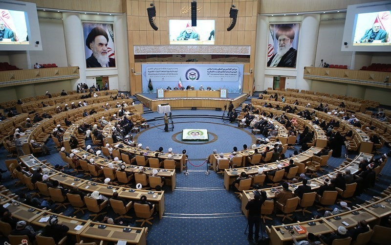 30th International Islamic Unity Conference in Tehran- December 2016